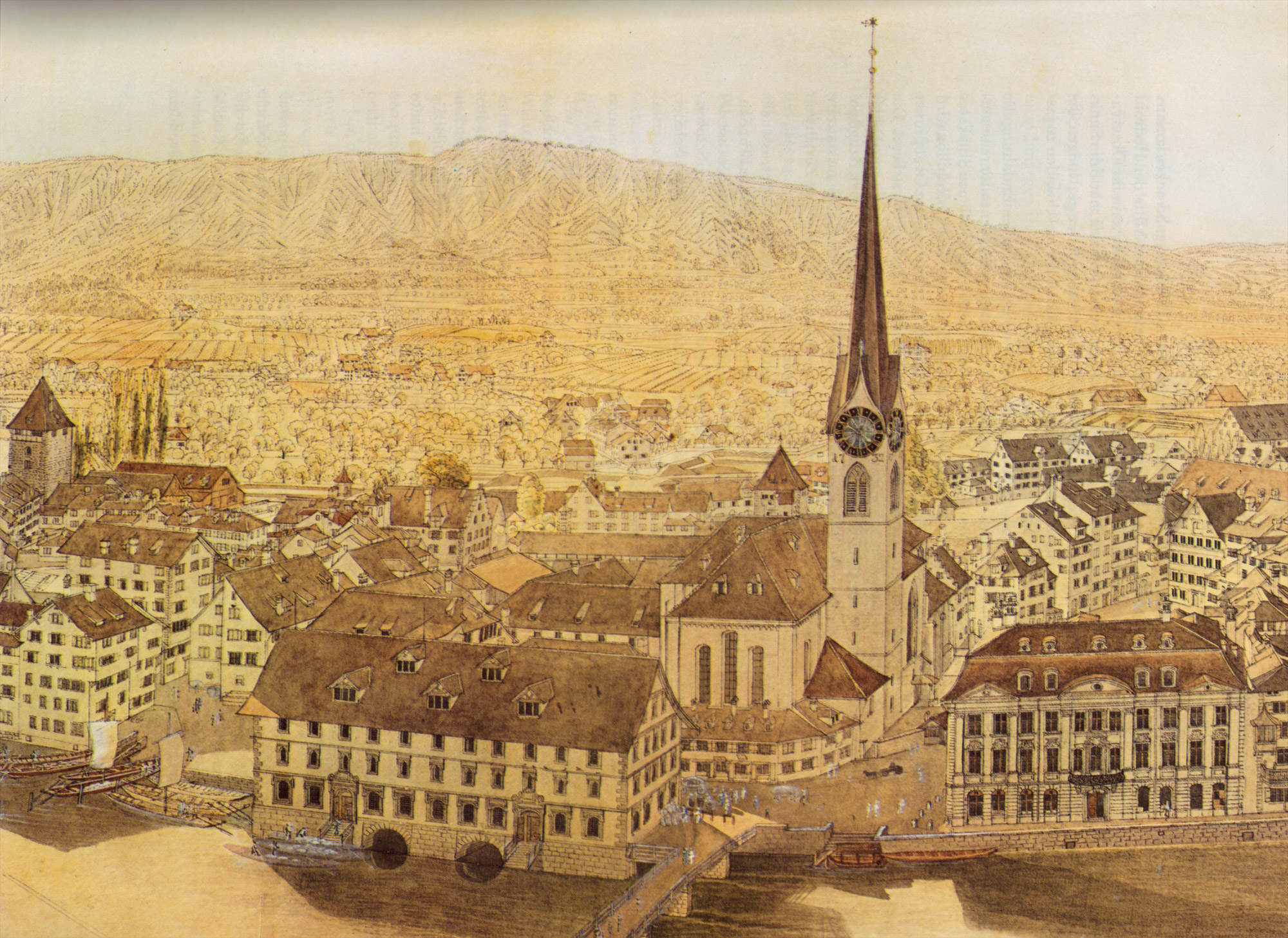 Fraumünster abbey, old corn house, and Zunfthaus zur Meisen in Zürich